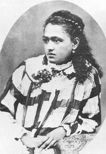 Terii Maeva Rua, Queen of Bora Bora (1871-1932), wife of Prince Hinoi.